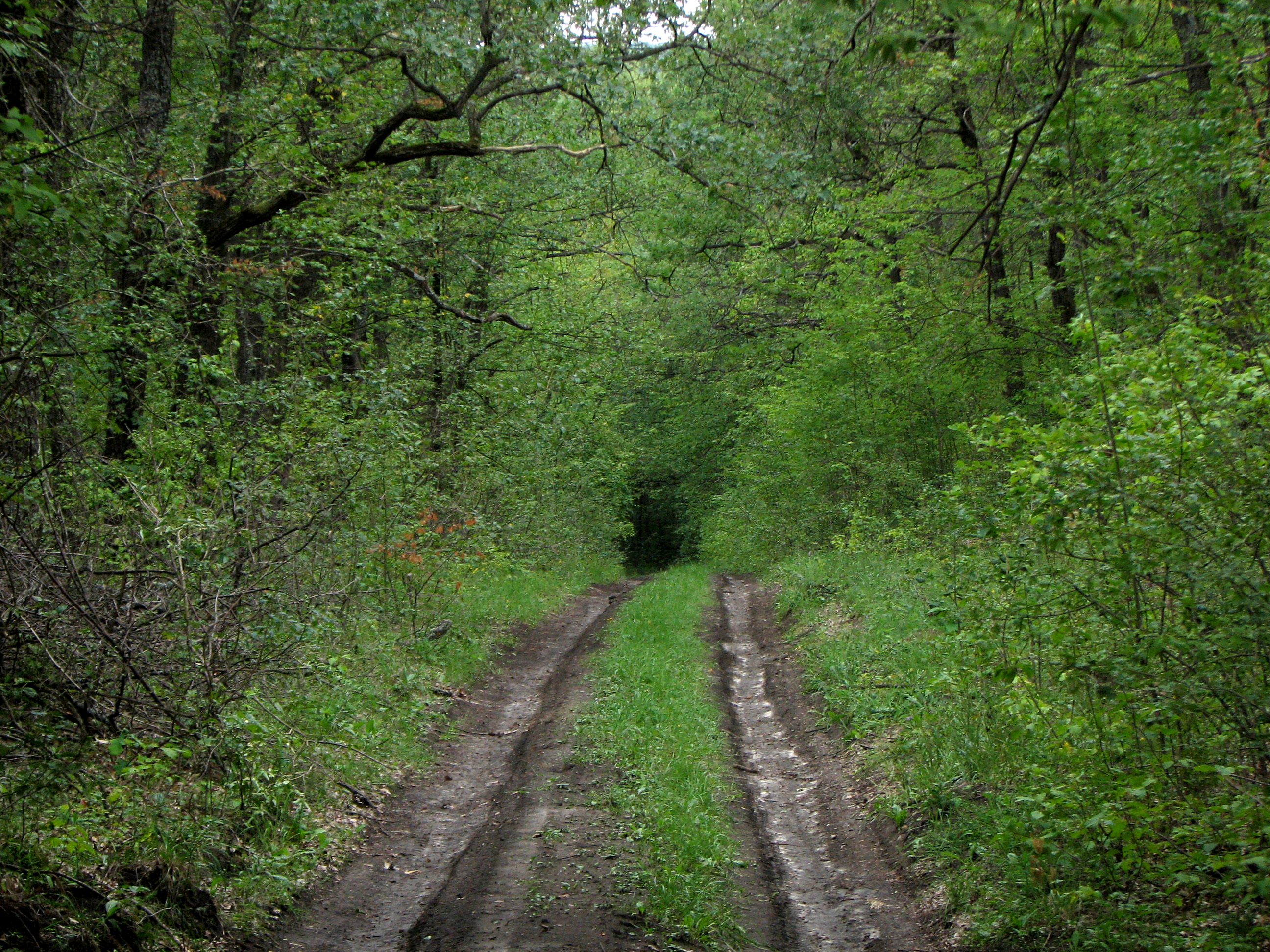 Wood of Savran